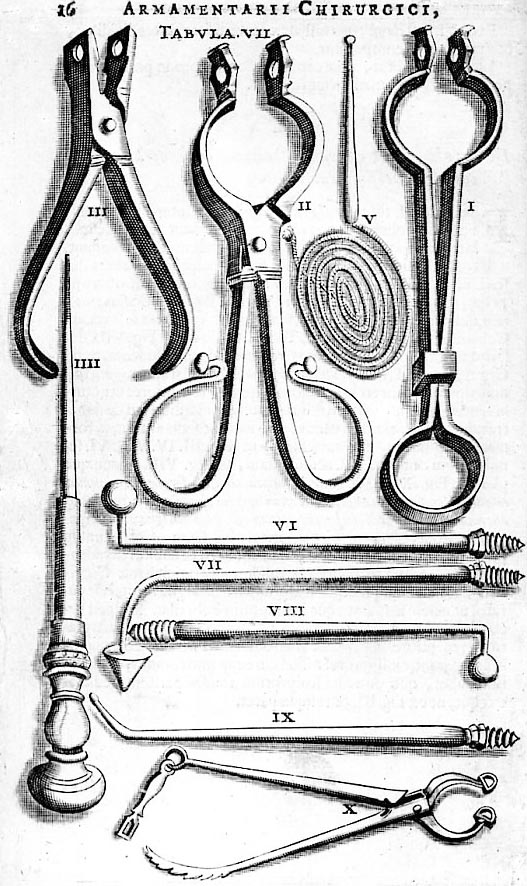 Surgical Instrument from Johann Scultetus: Armamentarium Chirurgicum. Ulm, 1655